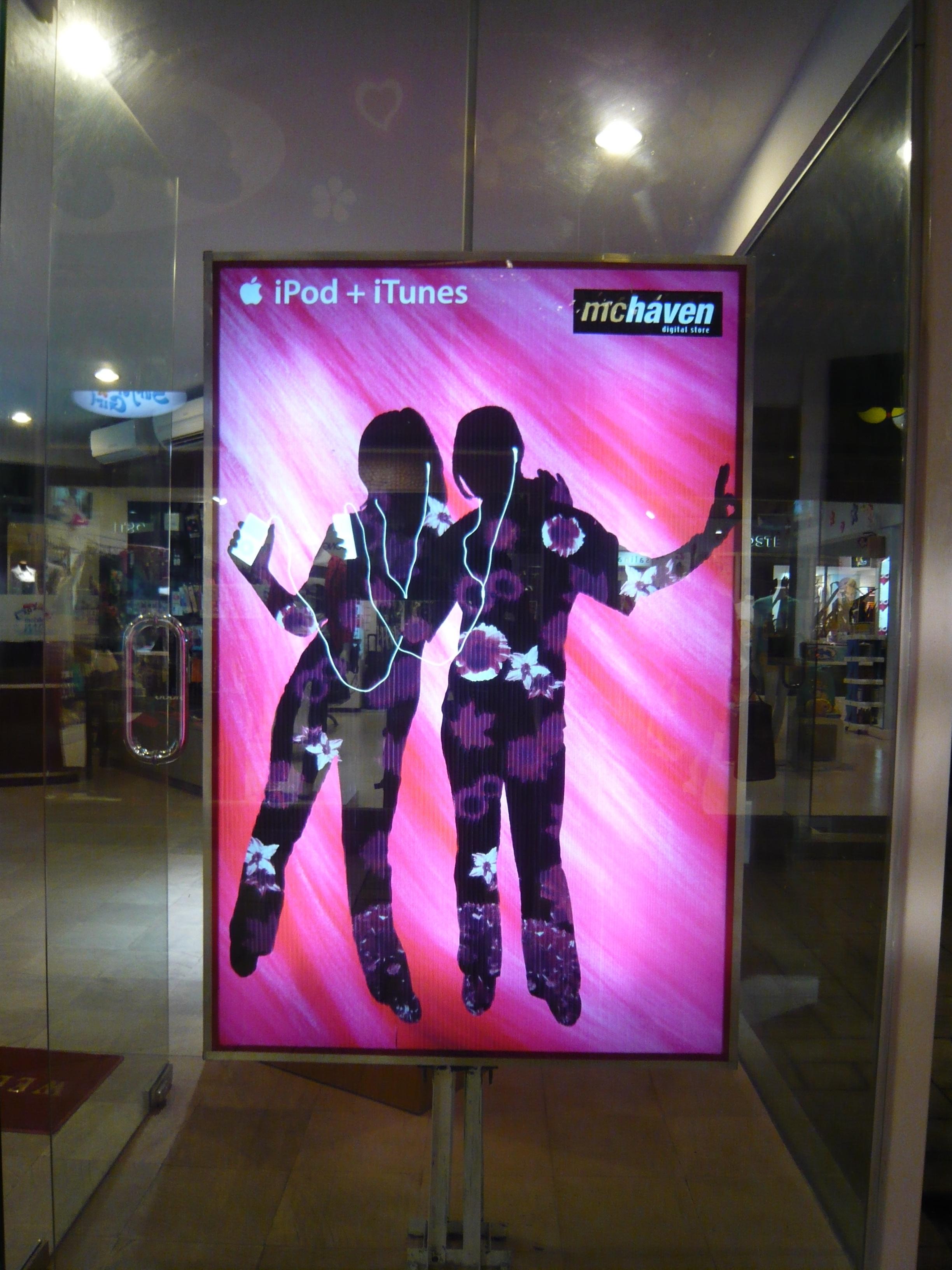 Tropical iPod + iTunes Ad in Bali